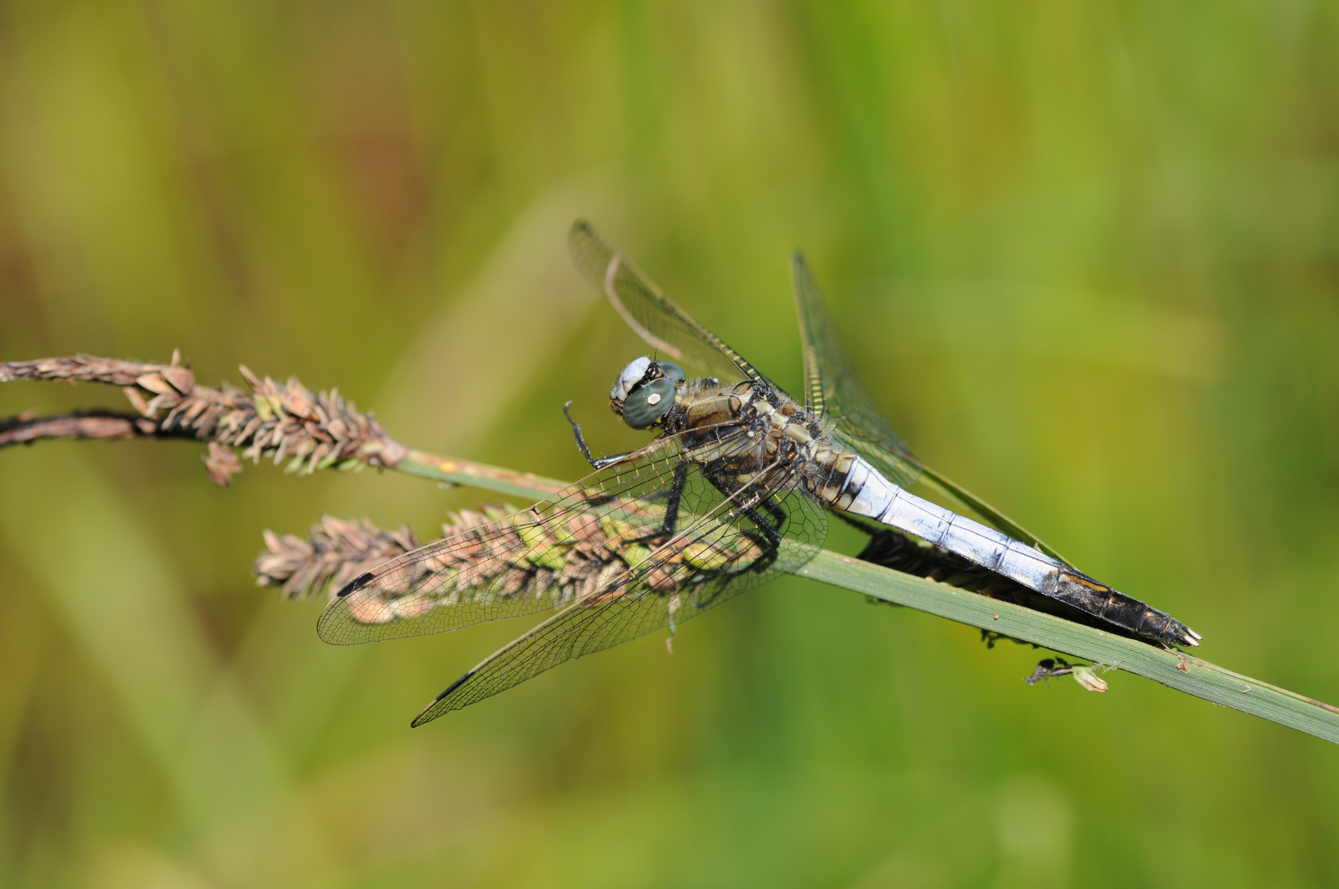 Orthetrum à stylets blancs